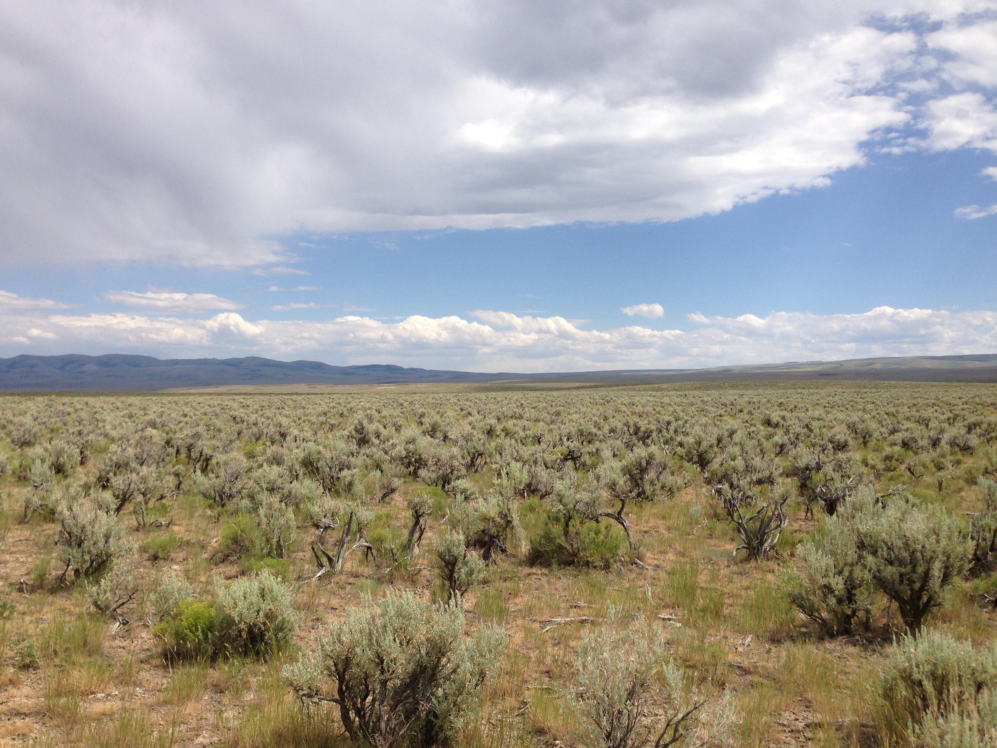 Great Basin Sagebrush steppe along Three Creek Road, in Owyhee County, southwestern Idaho. The primary plant is Artemisia tridentata.